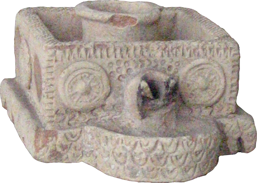 Pottery oil lamp, Bard Nishandeh (Khuzestan), Parthian. National Museum of Iran.